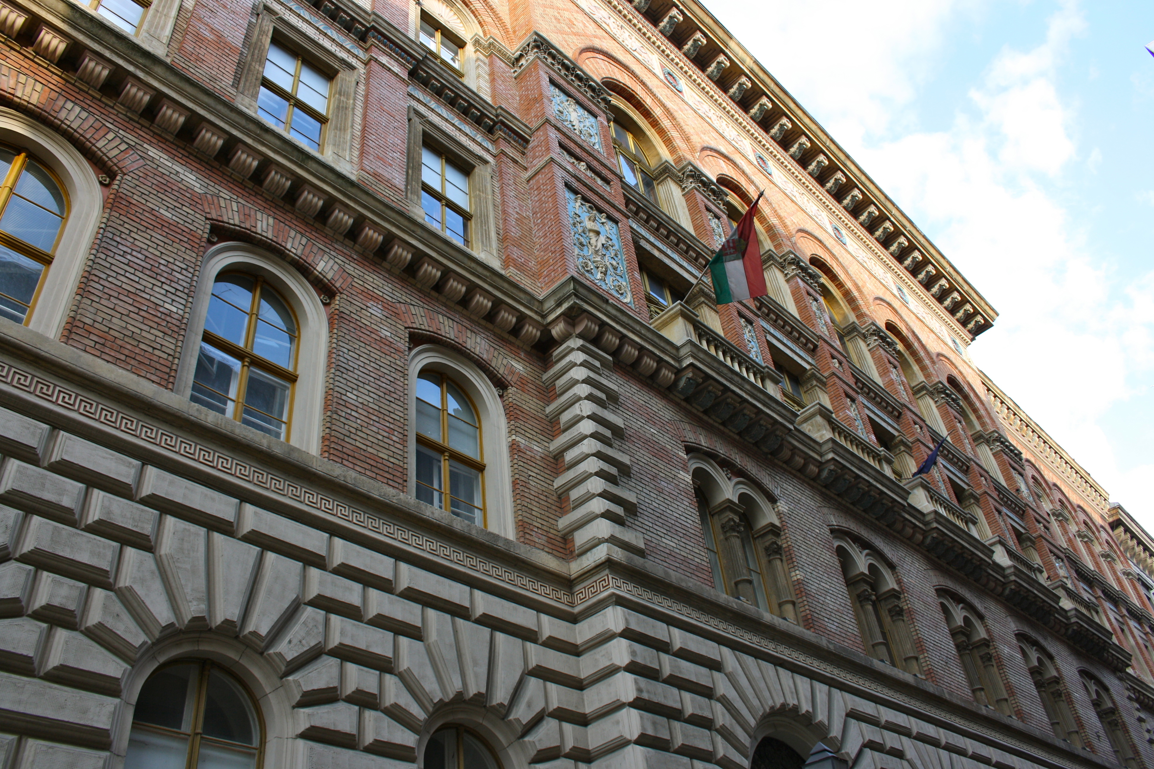 New City Hall, Budapest.